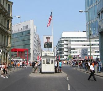 The Checkpoint Charlie Memorial Site in Berlin, 2003